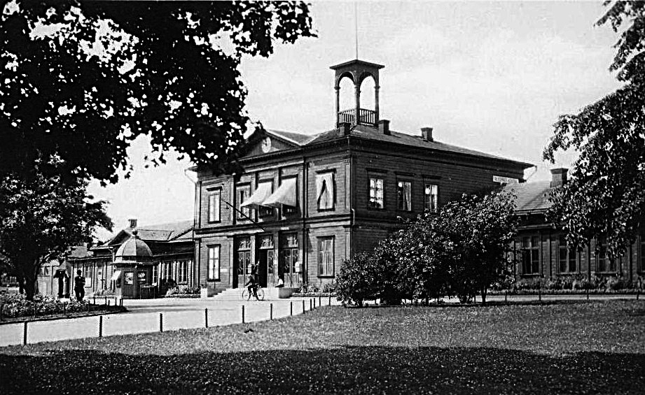 The old railway station "Falköping Ranten" (1858 - 1931) in Falköping Sweden.